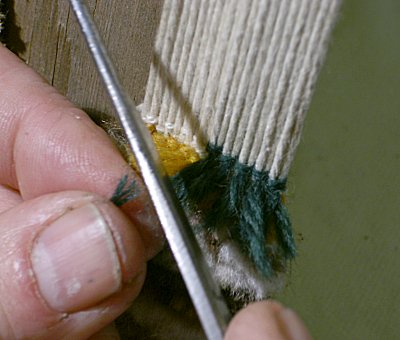 carpet knotting